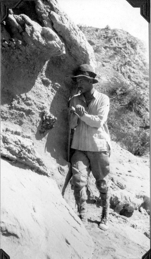 Dr. Rudolf Stahlecker at skull of Scalochrinotherium. 1926. Name of Expedition: 2nd Captain Marshall Field Paleontological Expedition Participants: Elmer S. Riggs (Leader and Photographer),Robert C. Thorne (Collector), Rudolf Stahlecker (Collector), Felipe Mendez Expedition Start Date: April 1926 Expedition End Date: November 1926 Purpose or Aims: Geology Fossil Collecting Location: South America, Argentina, Catamarca Original material: album print Digital Identifier: CSGEO69401 Learn more about The Field Museum's Library Photo Archives.